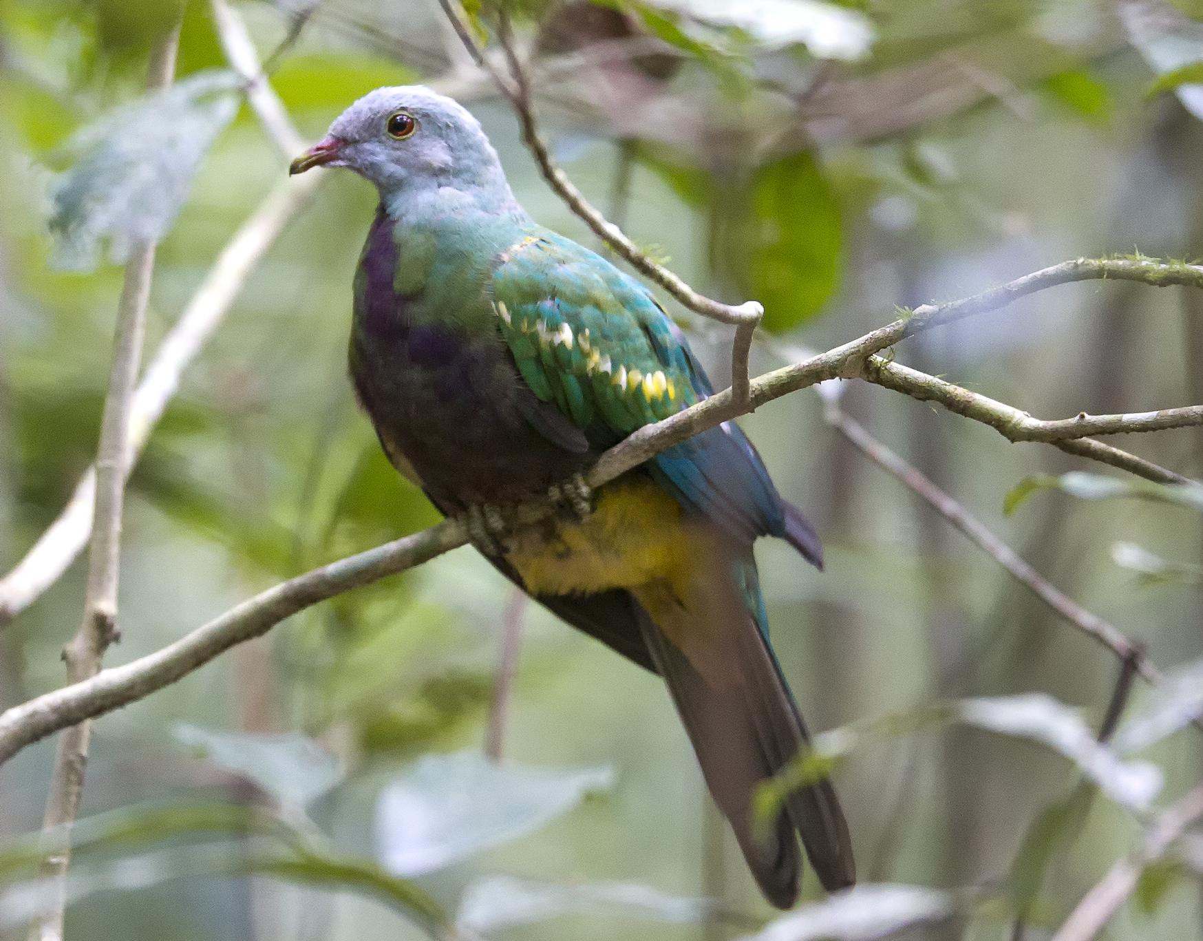 A Wompoo Fruit Dove, also known as Wompoo Pigeon in North Queensland, Queensland, Australia.